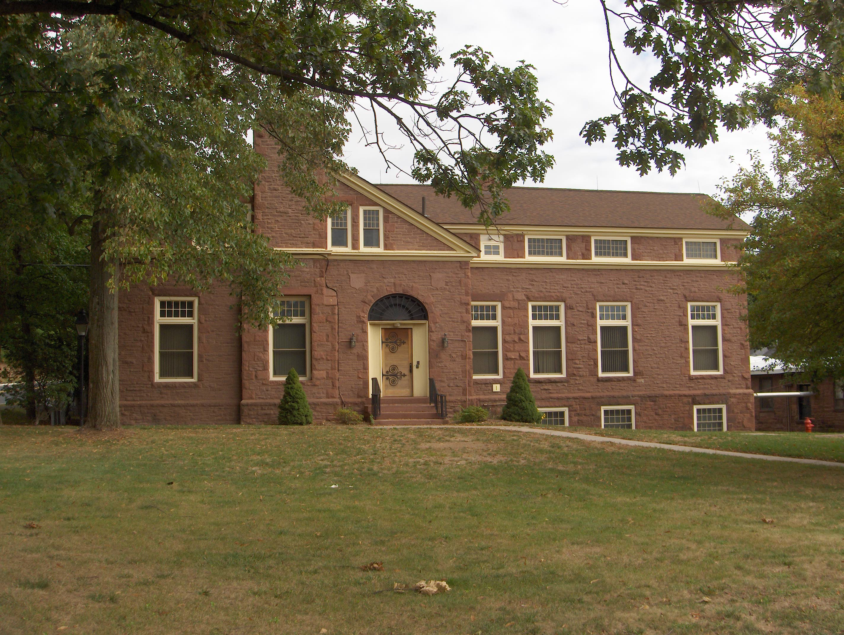 Dyno Nobel building in Simsbury, Connecticut (formerly part of Ensign-Bickford Industries)